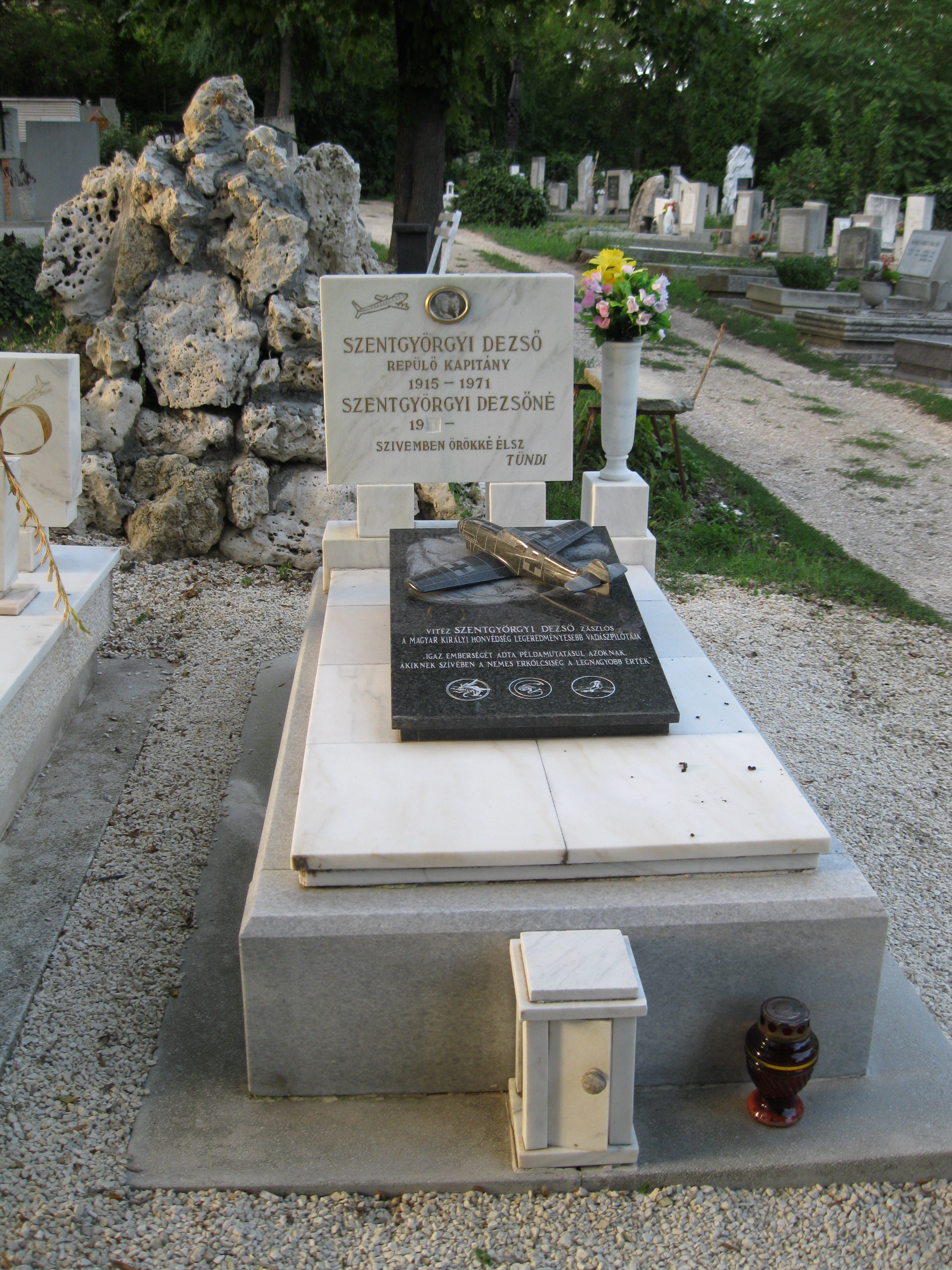 Tomb of Dezső Szentgyörgyi in Farkasréti Cemetery [11/1-1-364]